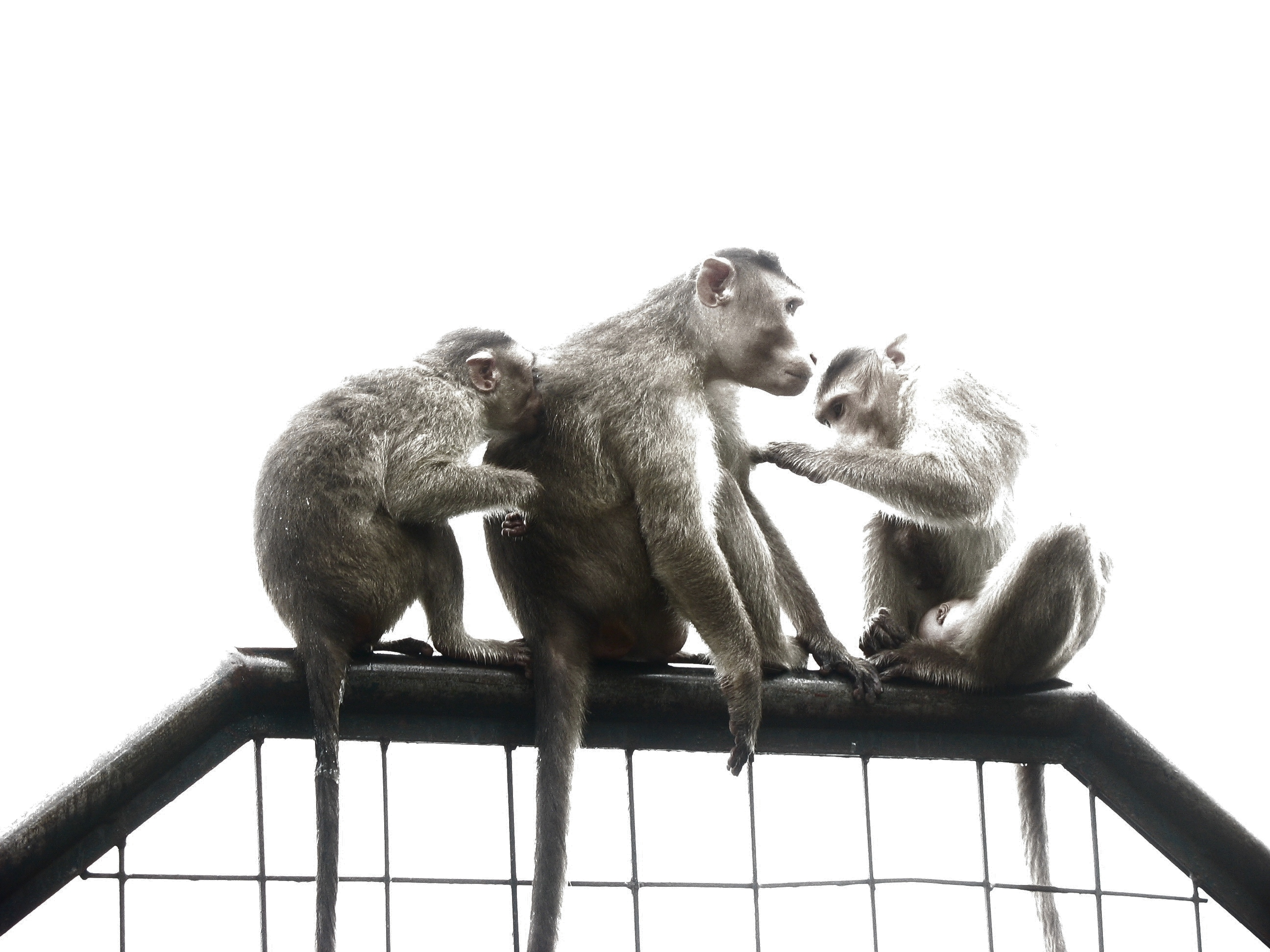 Macaques grooming each other at a foggy viewpoint near Lonavla, India.